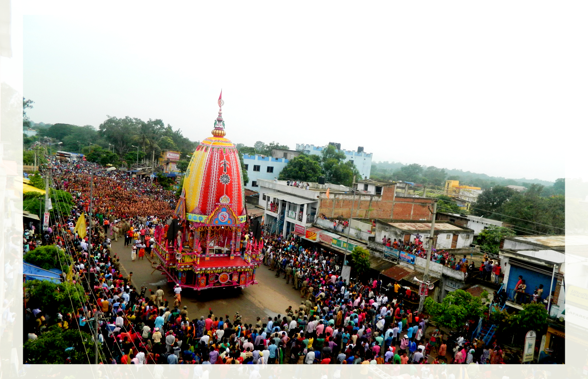 The Rairangpur Rath Yatra